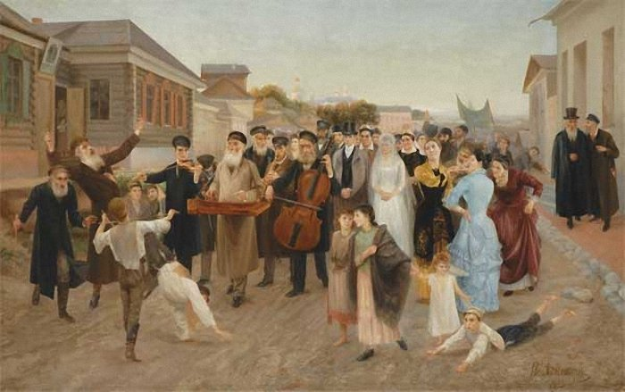 Isaak Asknaziy, Jewish wedding in a Russian shtetl, accompanied by a Klezmer band, 1893.